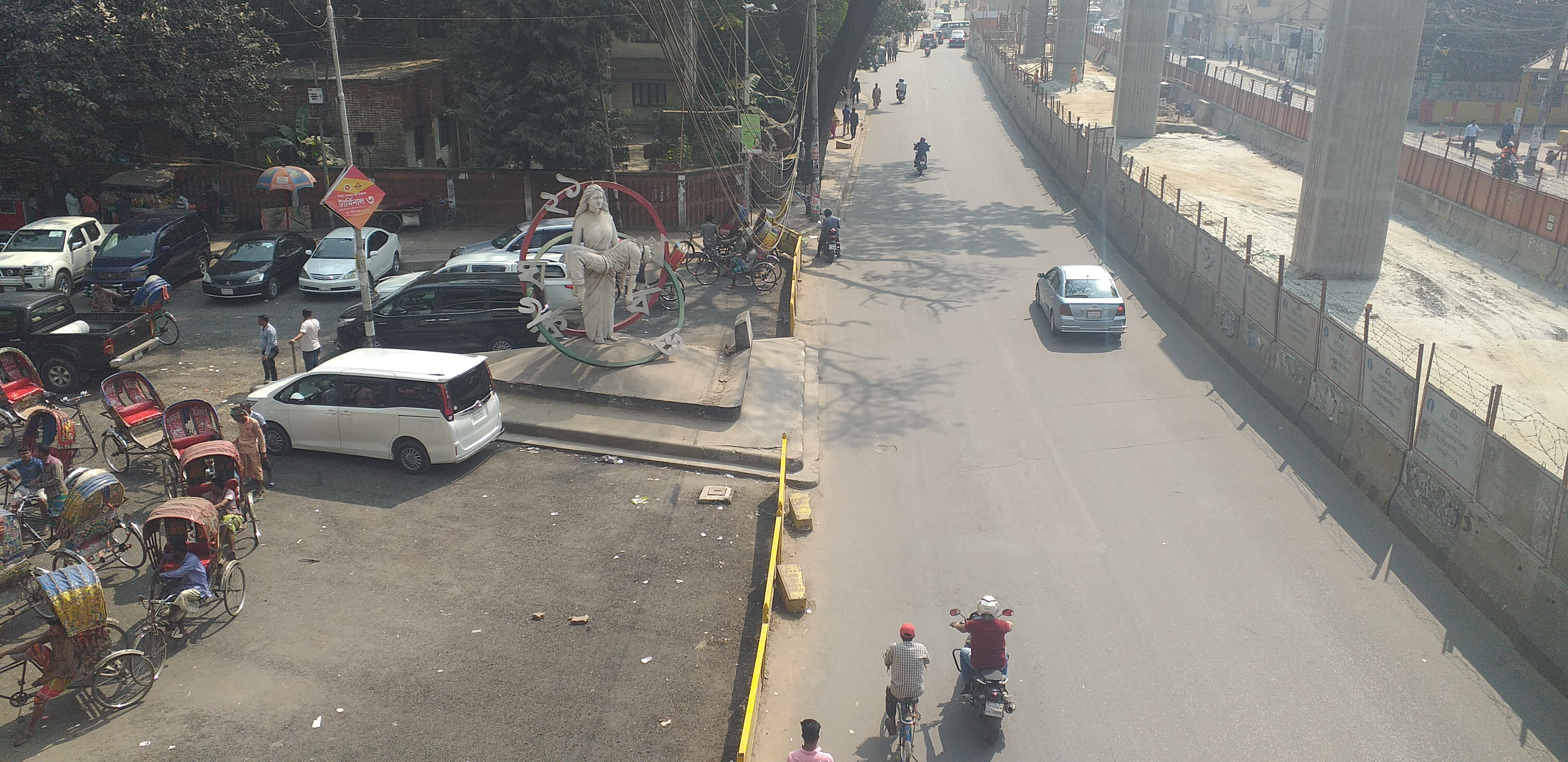 ভাষা সৃতি স্তম্ভ